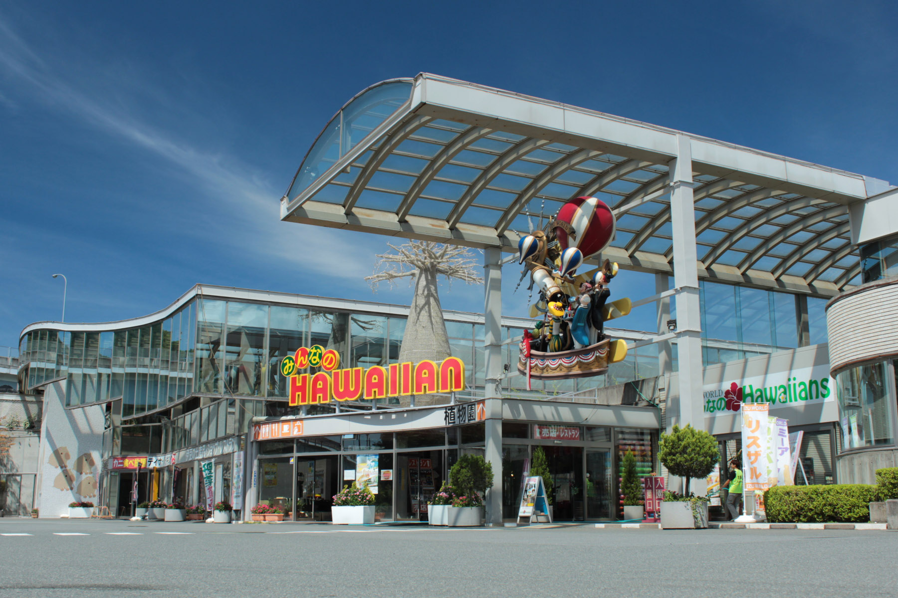 Entrance of IZU-WORLD MINNANO Hawaiians in Izunokuni, Shizuoka Prefecture, Japan.